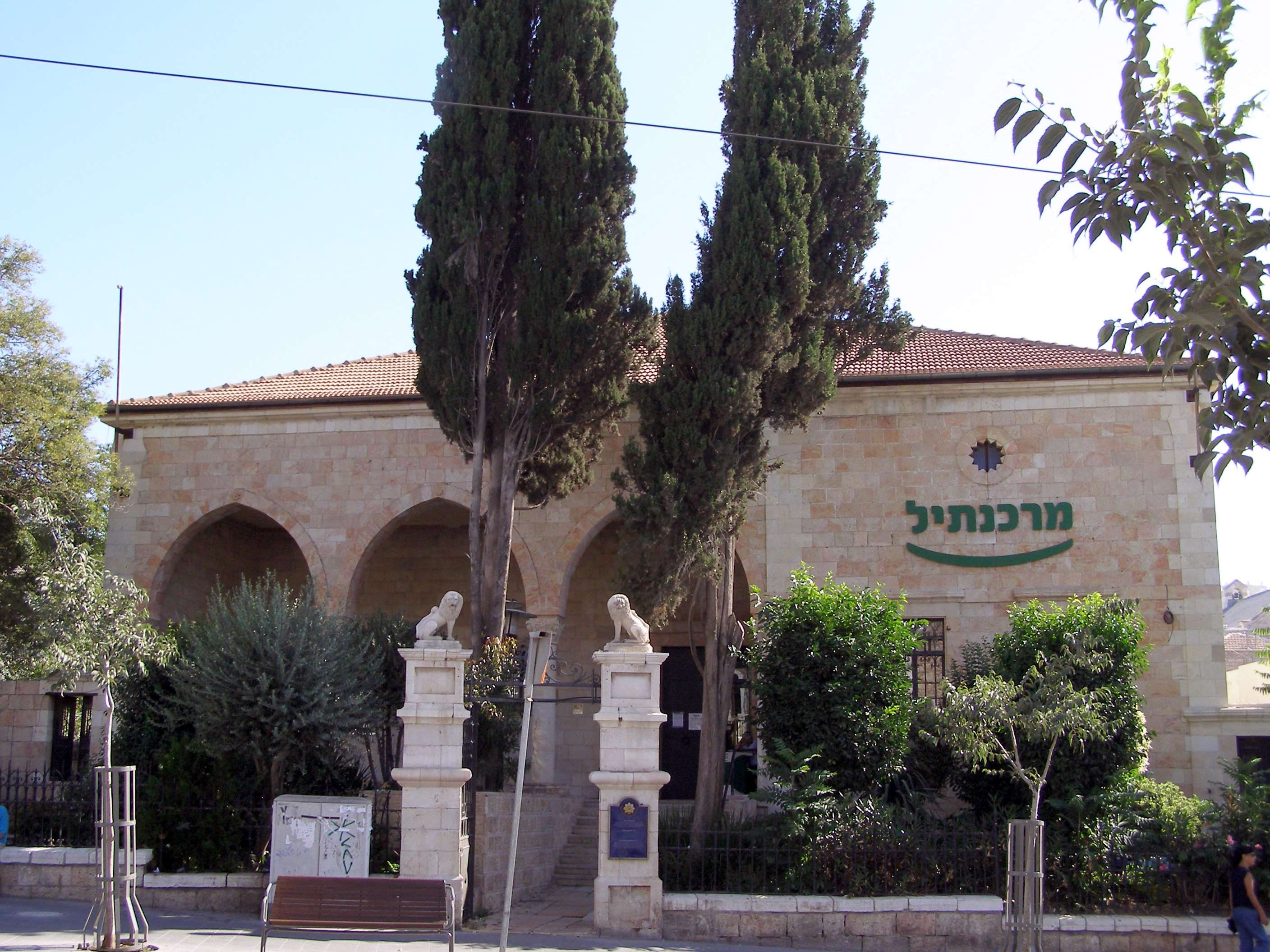 Jerusalem Jaffa road 64 Mashiah Borchoff House lion statues